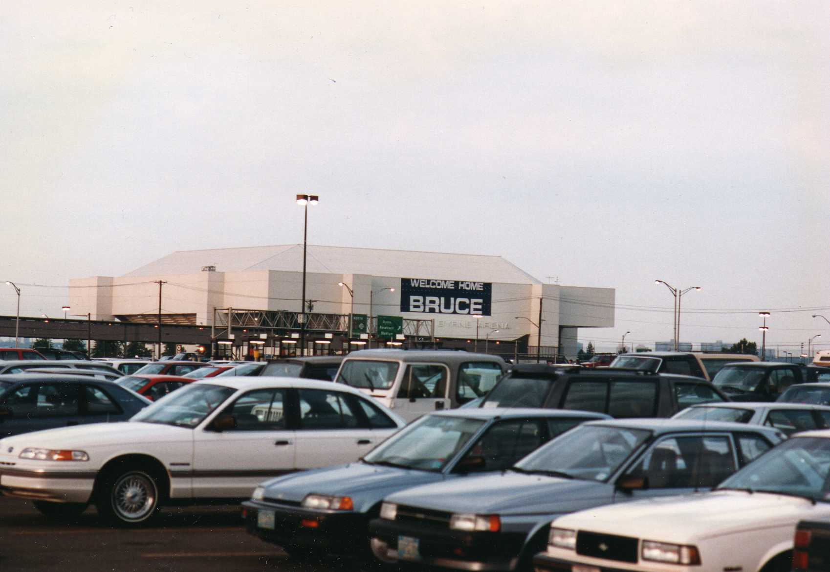 Banner on Meadowlands Arena during Springsteen's 11-night stand during the "Other Band" Tour.